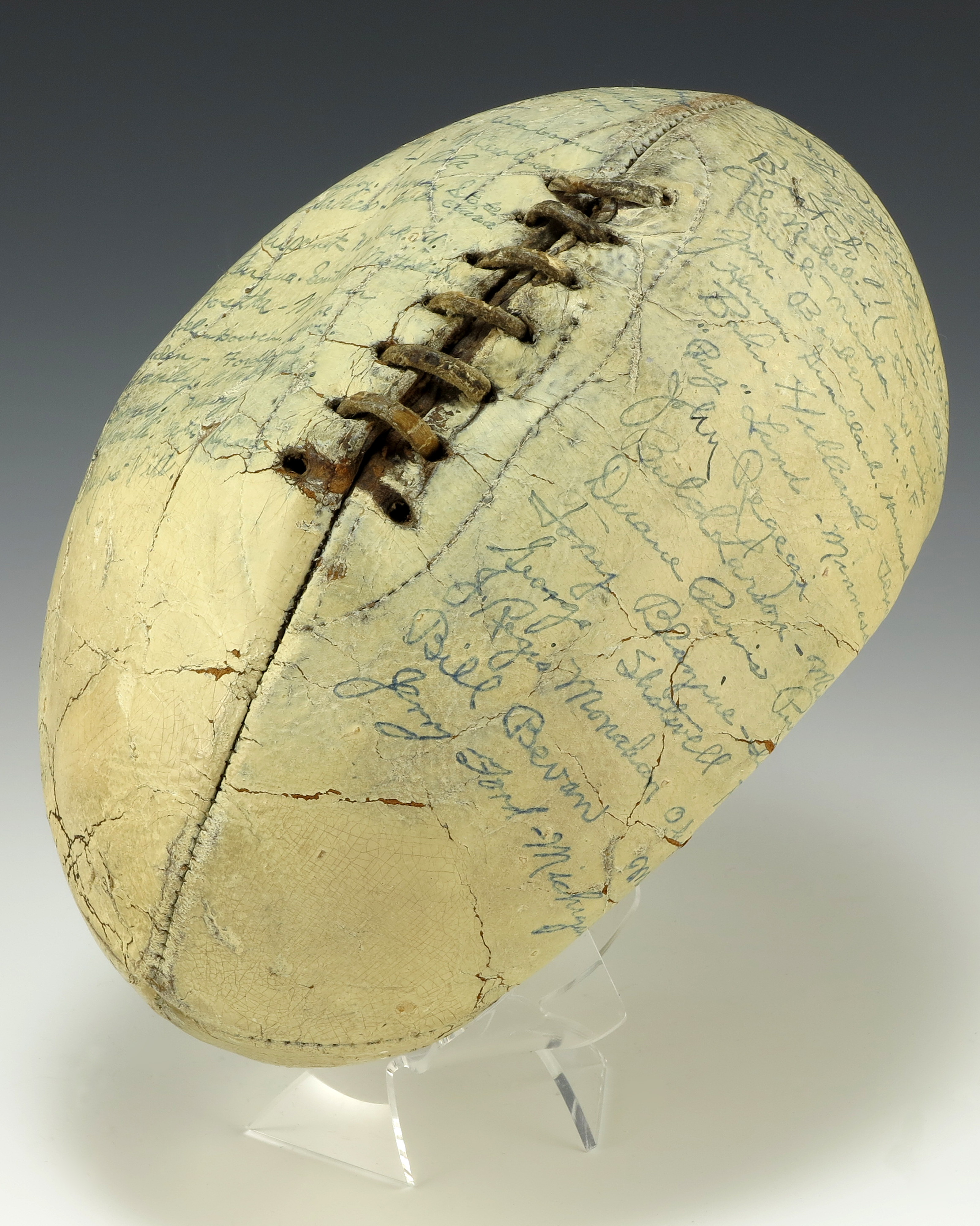 This white leather hide football with rawhide lacing was autographed by the members of the 1935 Collegiate All-Star Team, including Gerald R. Ford. The football includes the dates during which Ford played for the University of Michigan.